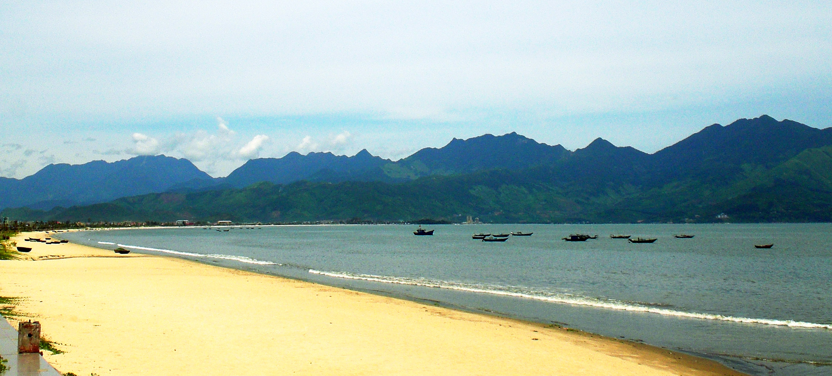 This is the in-gulf beach of Da Nang, Vietnam